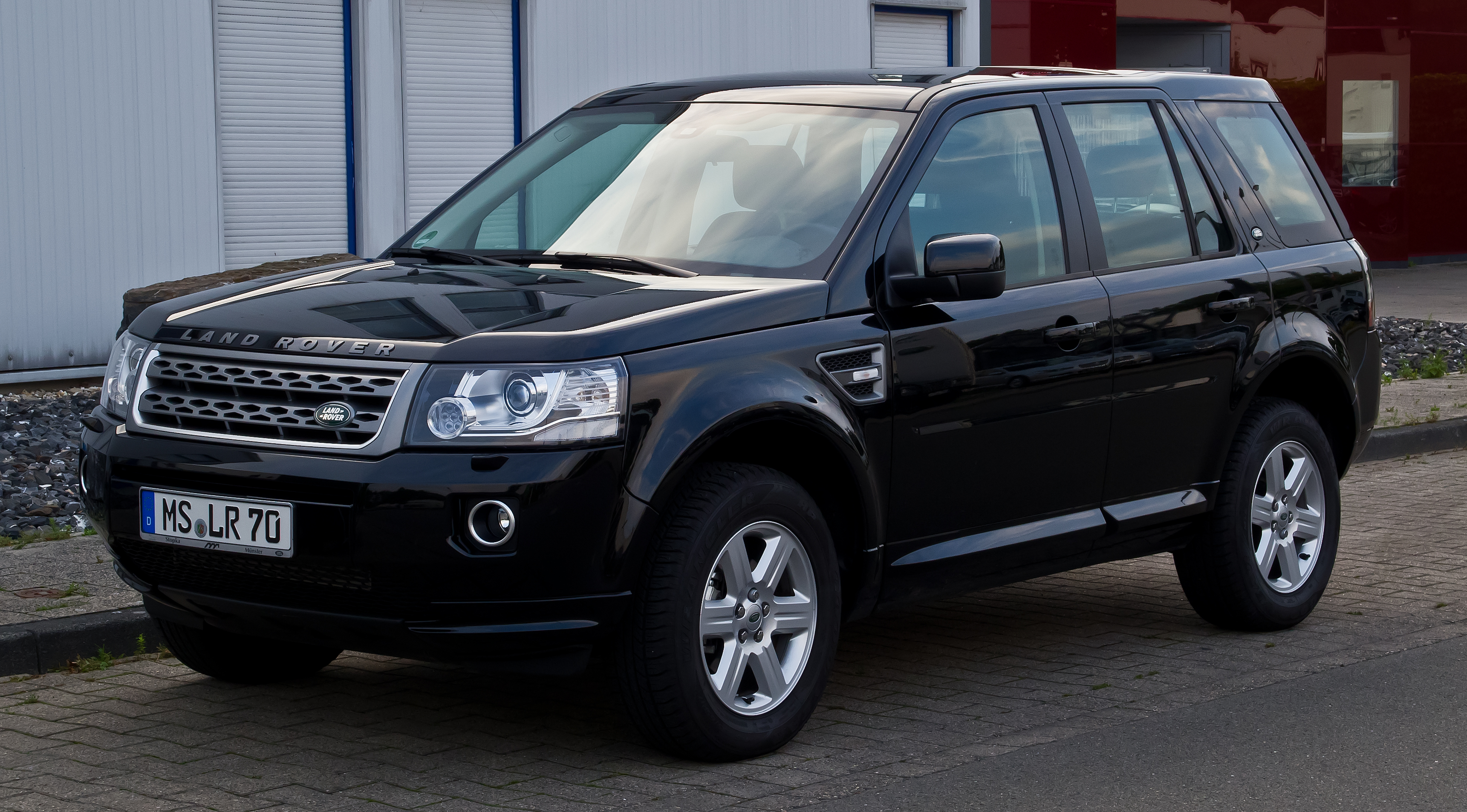 Land Rover Freelander TD4 S (II, 2. Facelift)